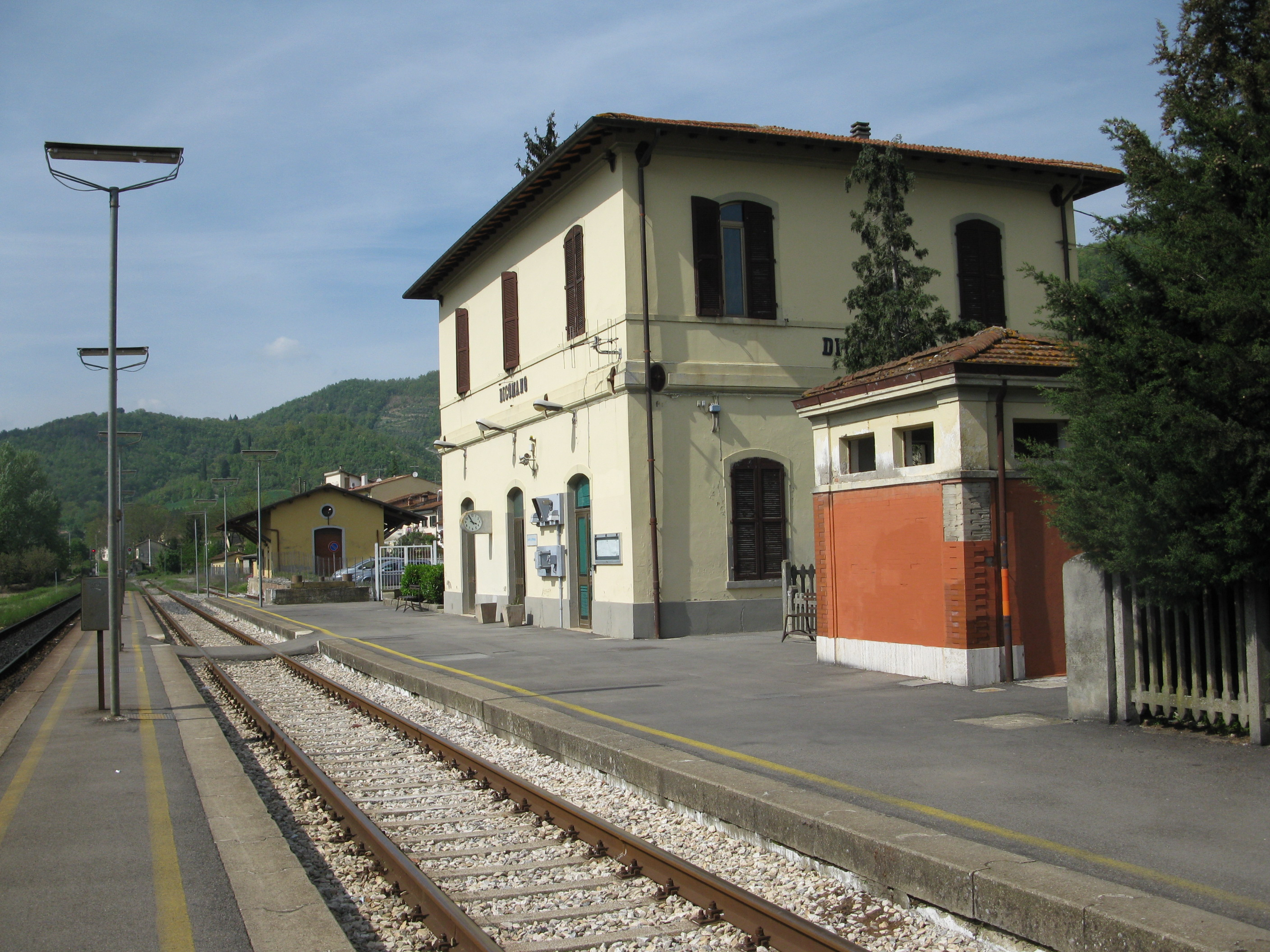 Dicomano railway station, station building